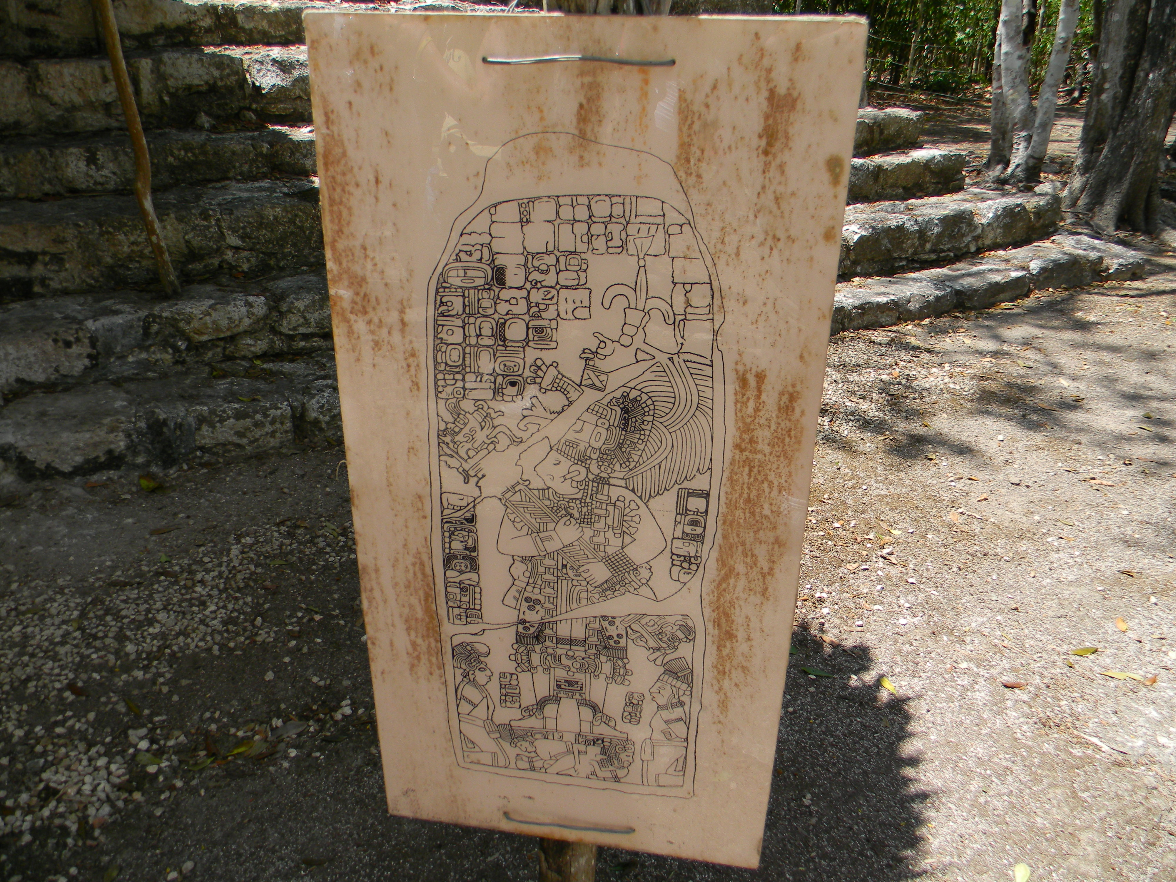 Copy of protected stela in arheological site in Coba